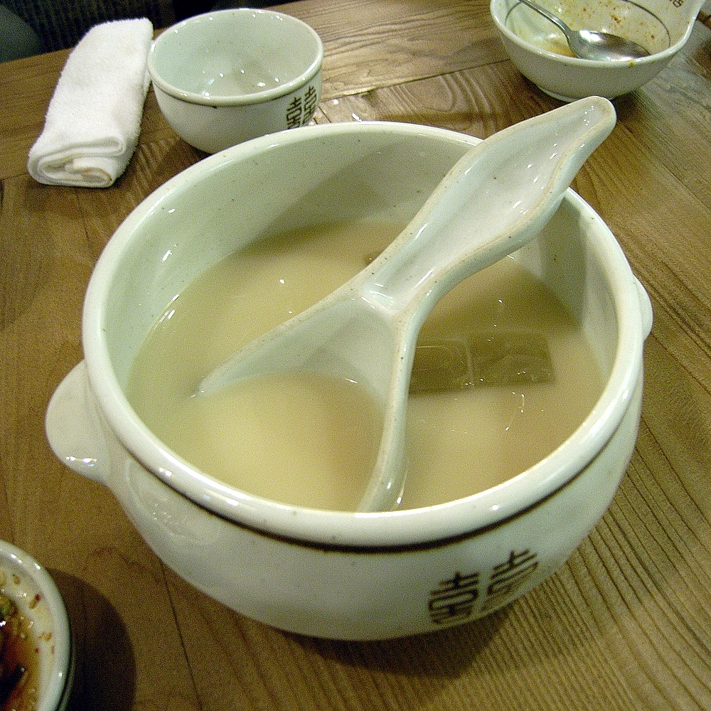 A bowl of Makgeolli, a type of Korean rice wine